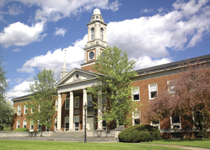 Personal Picture Summary Personal Picture